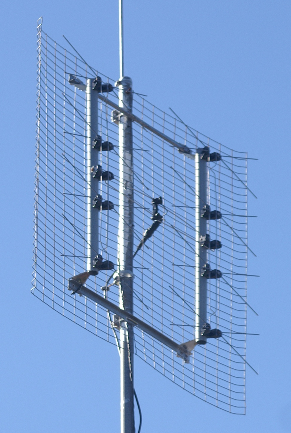 Channel Master model 4228HD 8 bay VHF/UHF rooftop television antenna. This is a type called a reflective array or "bowtie" antenna. It consists of an array of 8 "bowtie" dipole driven elements mounted in front of a wire screen reflector. The "X" shape of the dipoles gives them a wide bandwidth, apparently wide enough to cover both the VHF band 174-216 MHz and the UHF band 470-700 MHz. Using 4 rows increases the gain in the horizontal direction. Channel Master's specifications say it has 5 dB VHF gain, 12 dB UHF gain, 18 dB front-to-back ratio, and the list price is $109.00. Extending up above the antenna is a lightning rod.